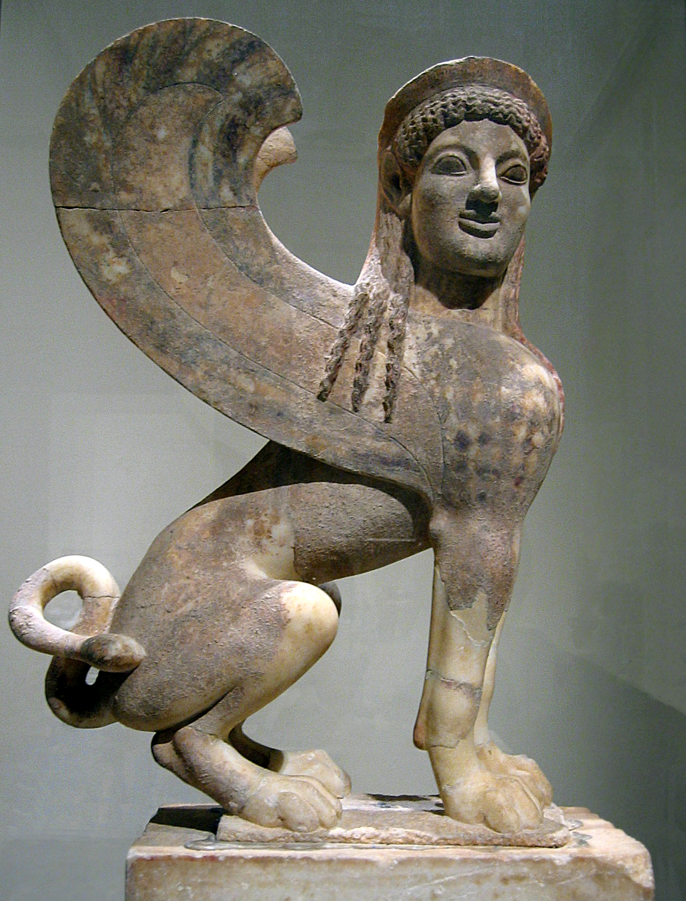 Sphinx-shaped finial of a marble grave stele (total height: 423.4 cm) of a youth and a little girl, Attica, ca. 530 BC. Metropolitan Museum of Art (New York), Inv. 11.185.